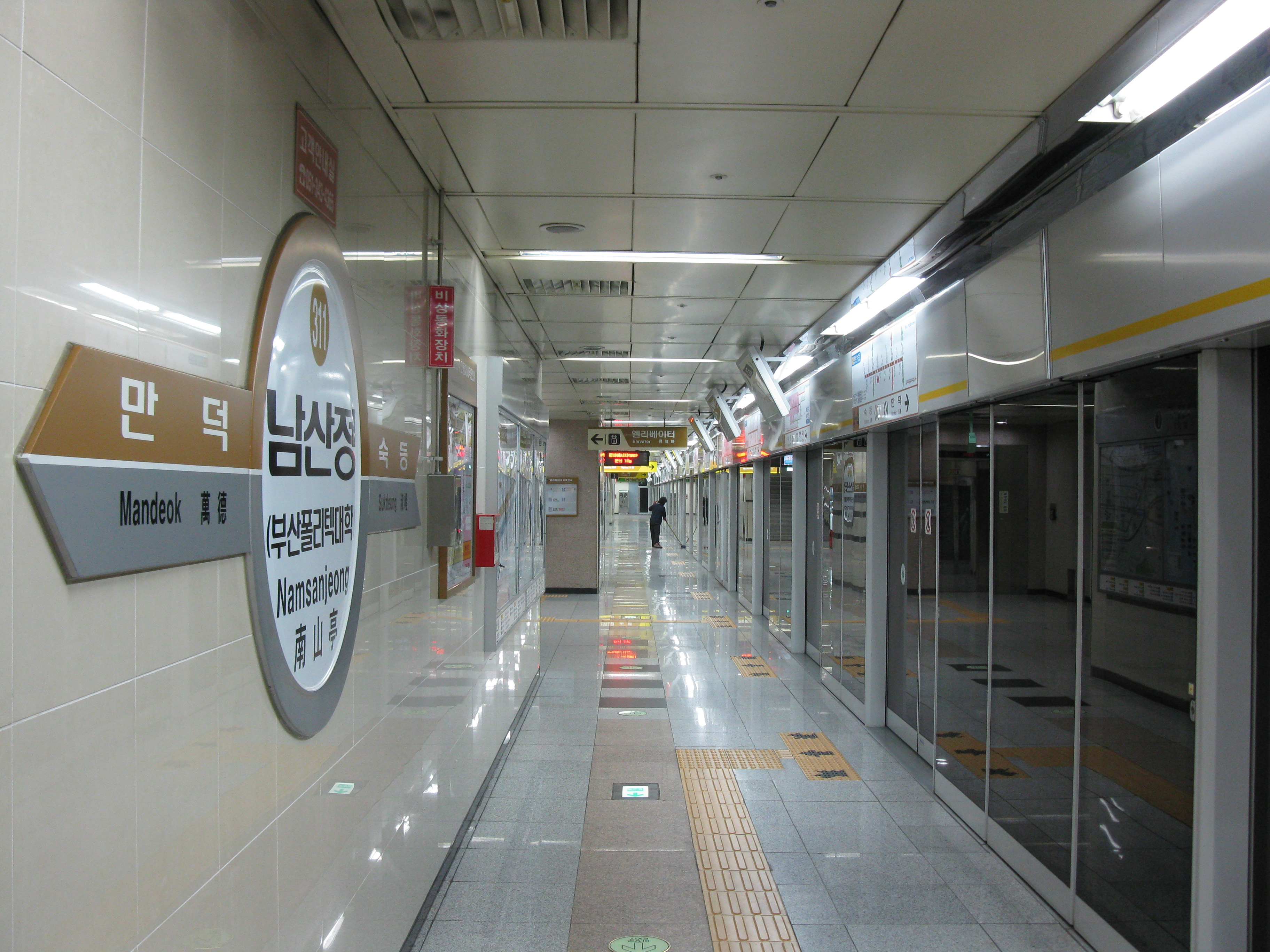 A platform of Namsanjeong Station, Busan Subway Line 3